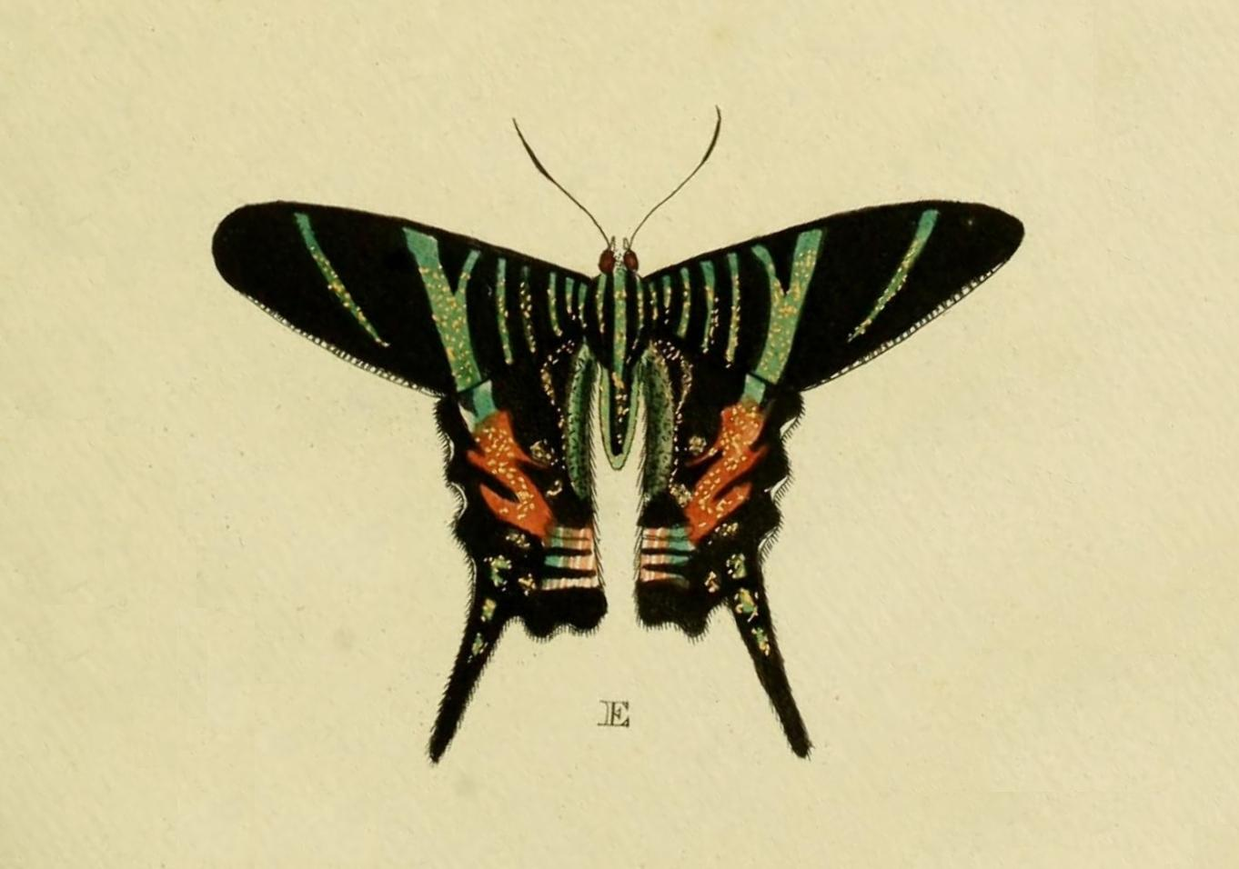 Urania sloanus illustration in Plate LXXXV of Cramer & Stoll's "De uitlandsche kapellen: voorkomende in de drie waereld-deelen Asia, Africa en America"